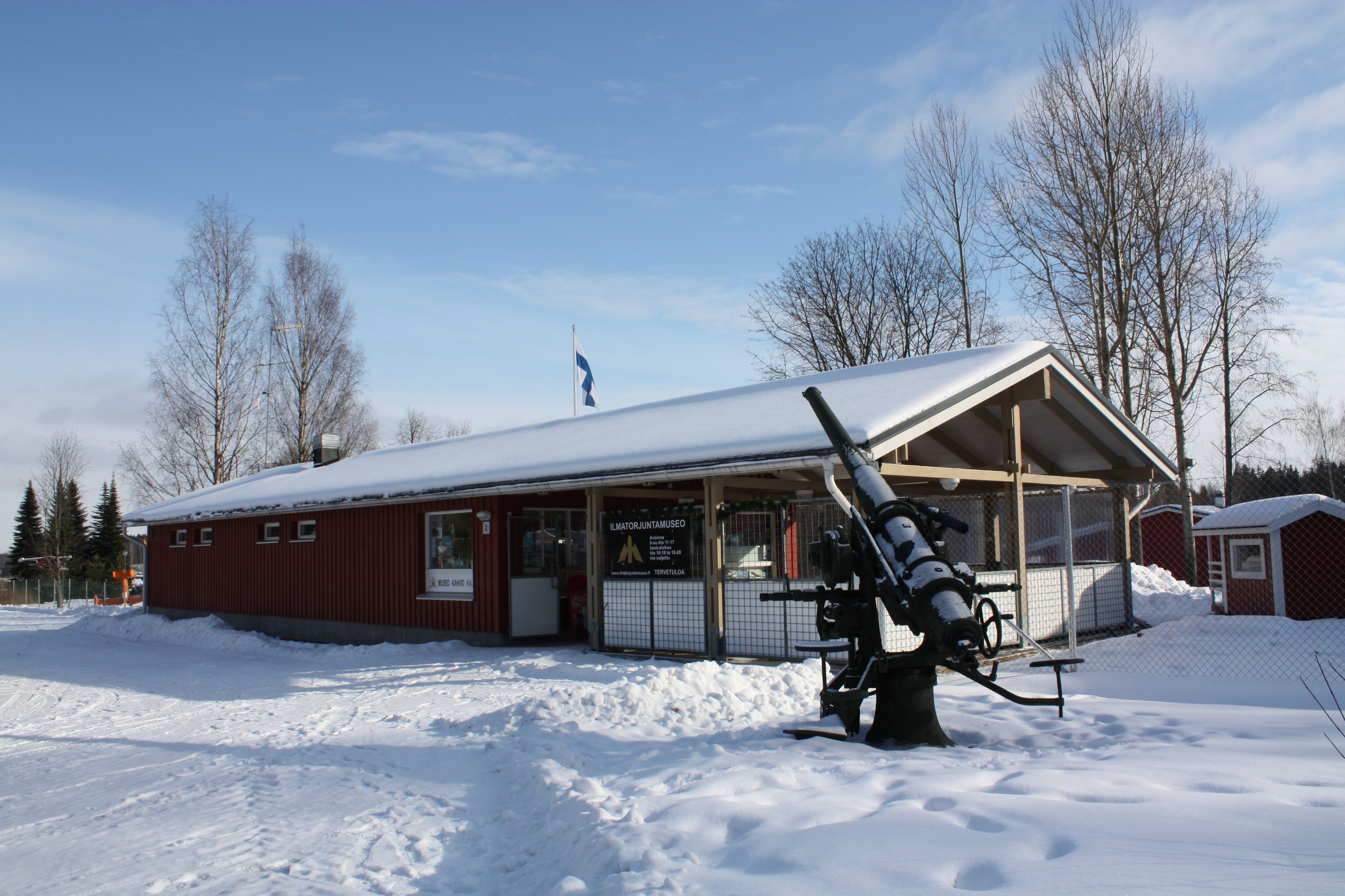 Entrance to The Anti Aircraft Museum in Hyrylä in Tuusula, Finland - February 2009